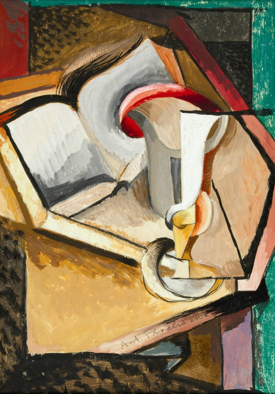 A painting called Still life with cup and book (1915), author Antonín Procházka